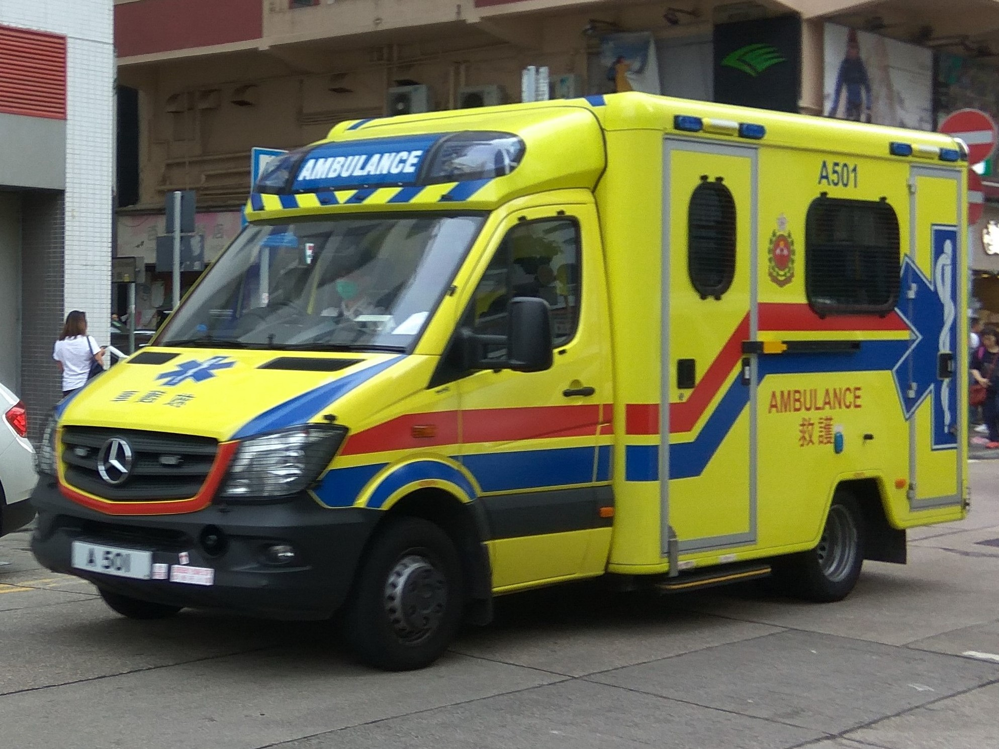 Ambulance A501 of the Hong Kong Fire Services Department.